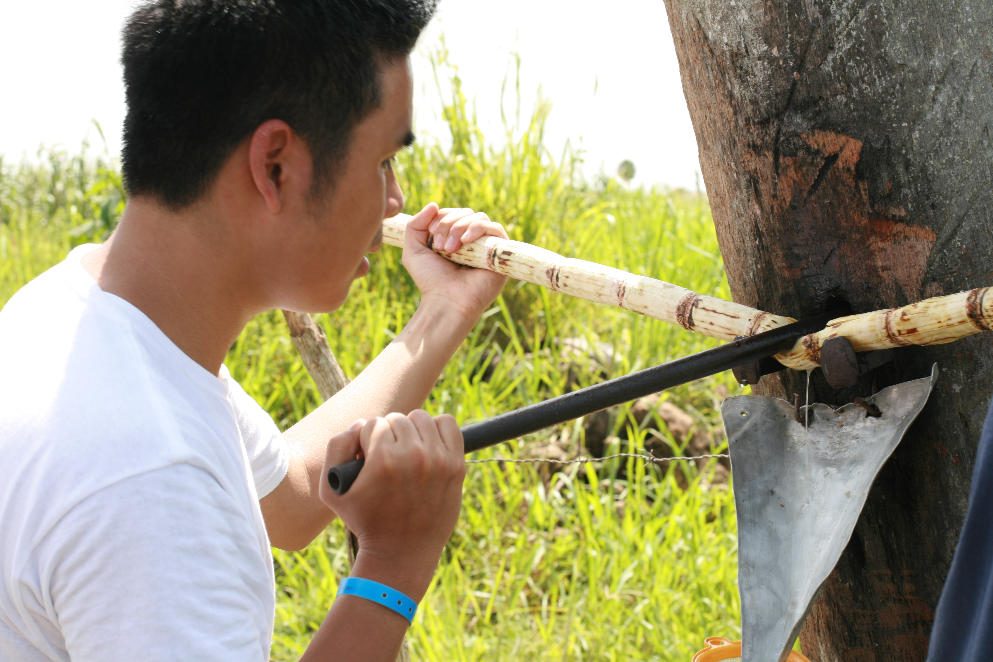 picture taken in 2007